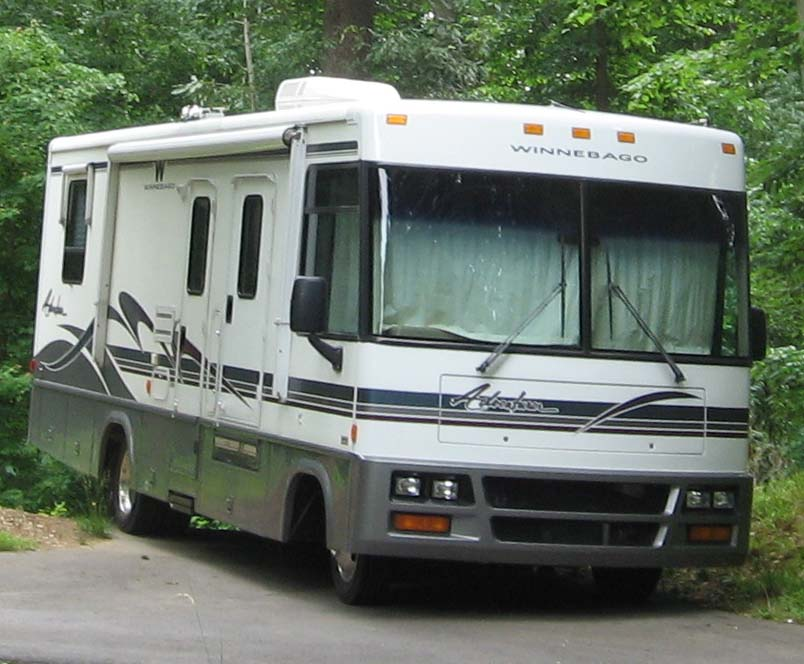 Winnebago Adventurer photographed in USA.